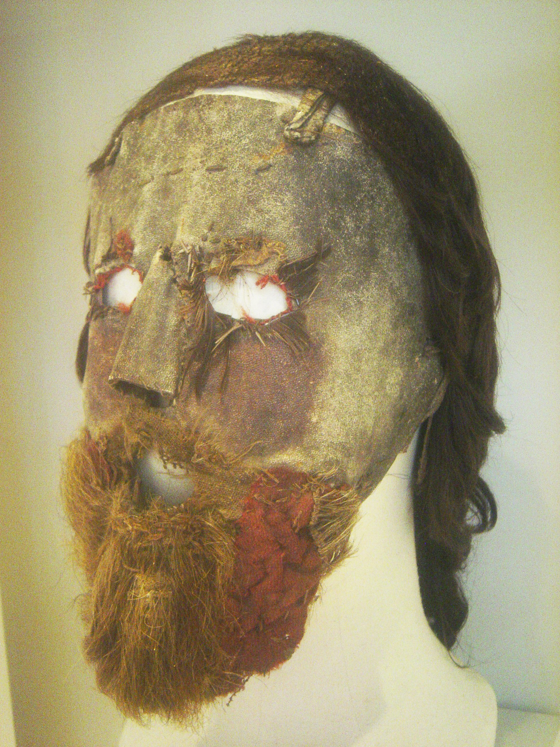 A mask allegedly used by Alexander Peden to escape English forcesPhoto taken at the National Museum of Scotland, Edinburgh